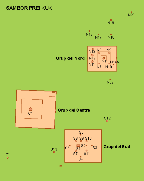 Sambor Prei Kuk, plan. Cambodia